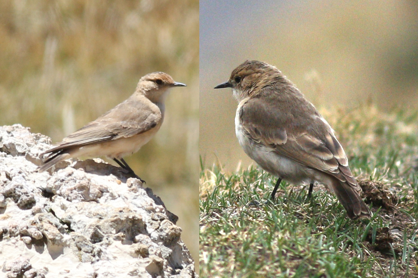 Dark-winged miner, Cordillera Huyahuash, Peru